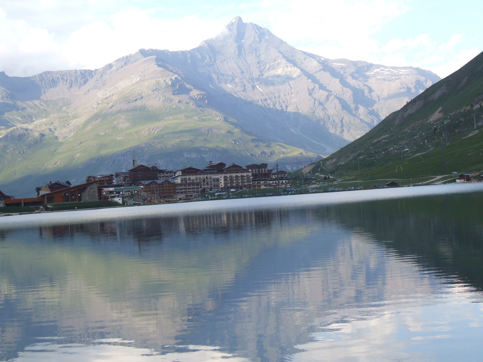 This picture shows Tignes-le-Lac.